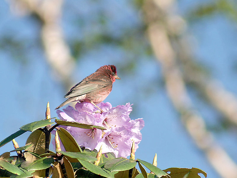 Pink-browed Rosefinch Carpodacus rodochroa in Kullu District of Himachal Pradesh, India.